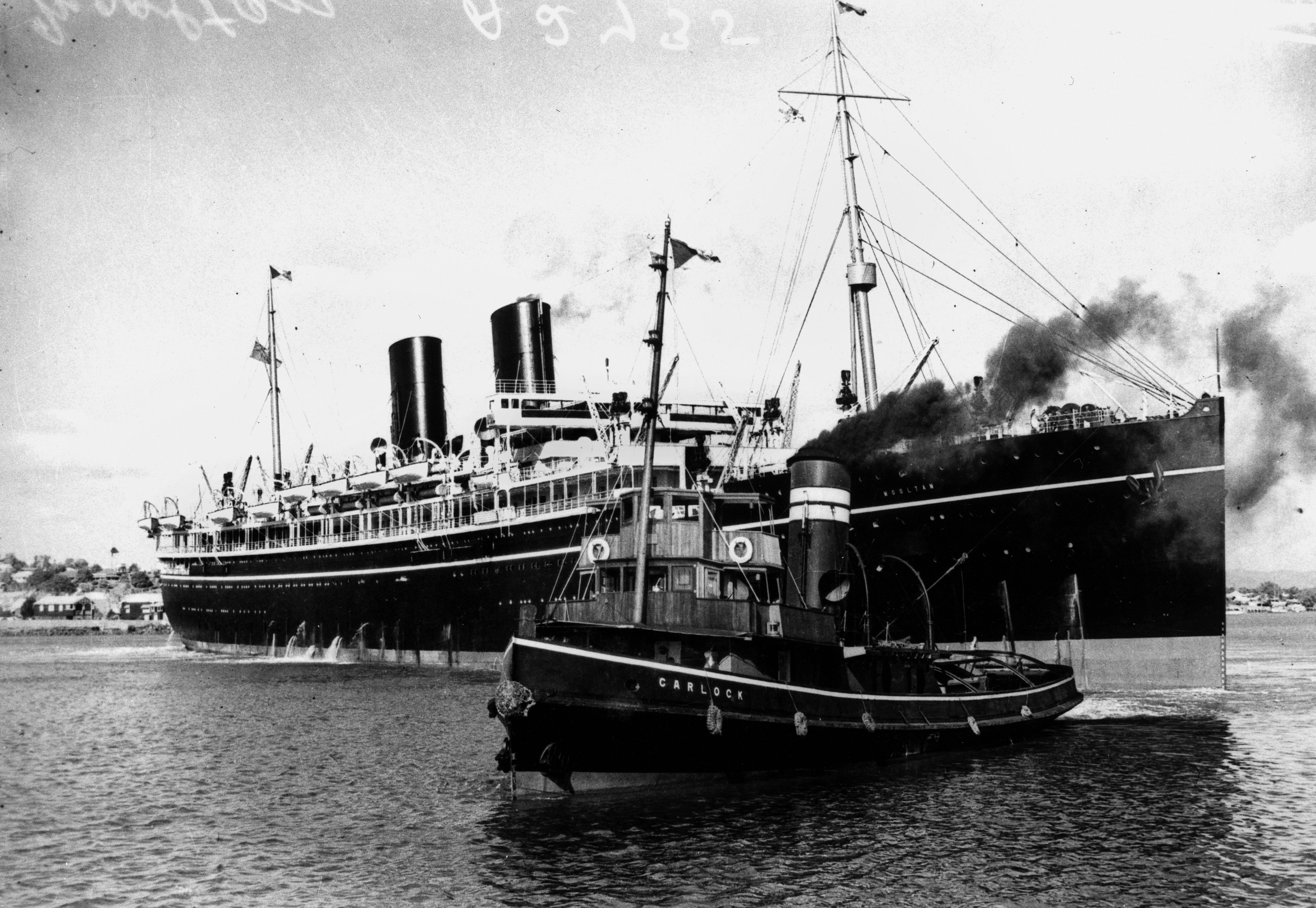 The P&O passenger liner RMS Mooltan at Brisbane. The tug Carlock, in the foreground, was used to bring liners into the port. (Description supplied with photograph).